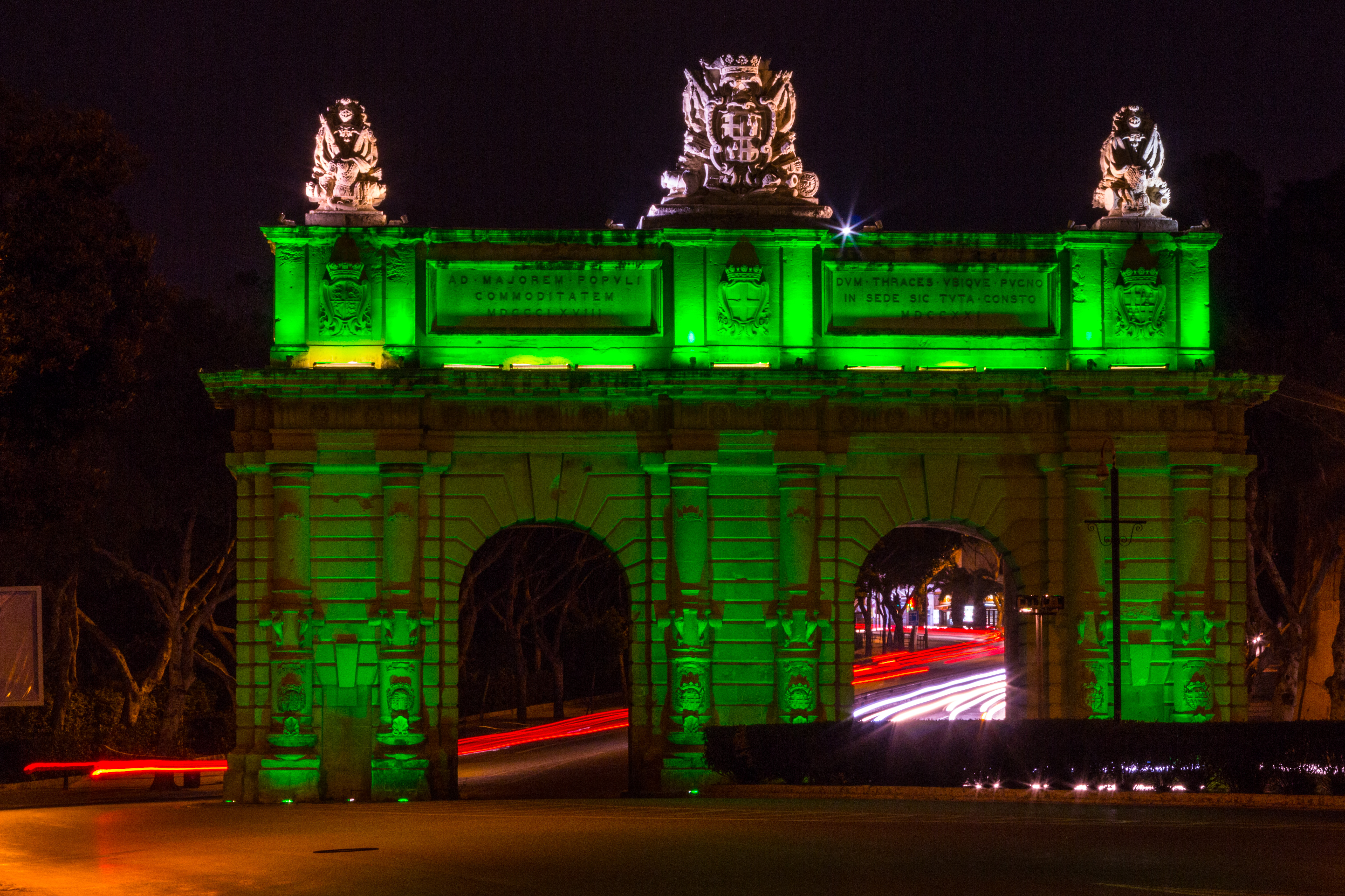 Porte des Bombes This media is about Maltese cultural property with inventory number 01645.